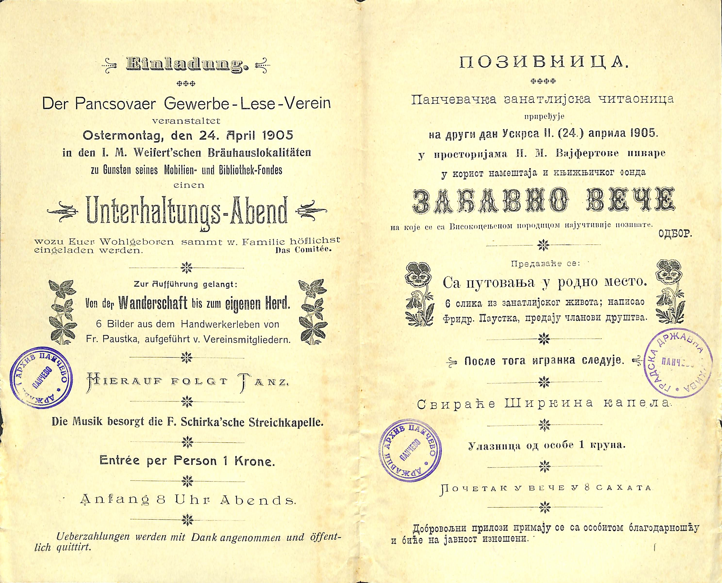 Invitation to Party in Pančevo, April 24, 1905